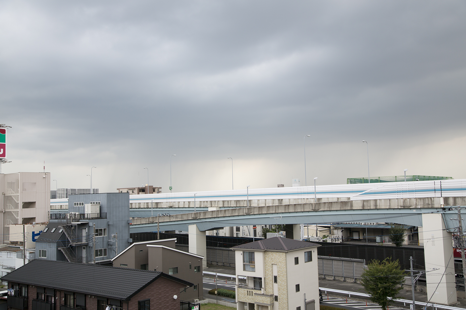 Japanese guerrilla rainstorm, 16 September 2012, urawa-ku Saitama-city Saitama Japan.